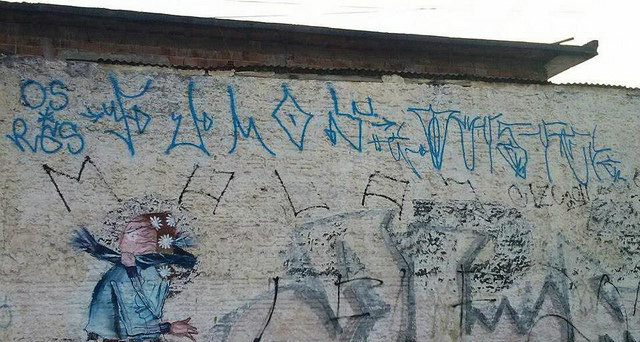 Graffiti Brazil urban expression